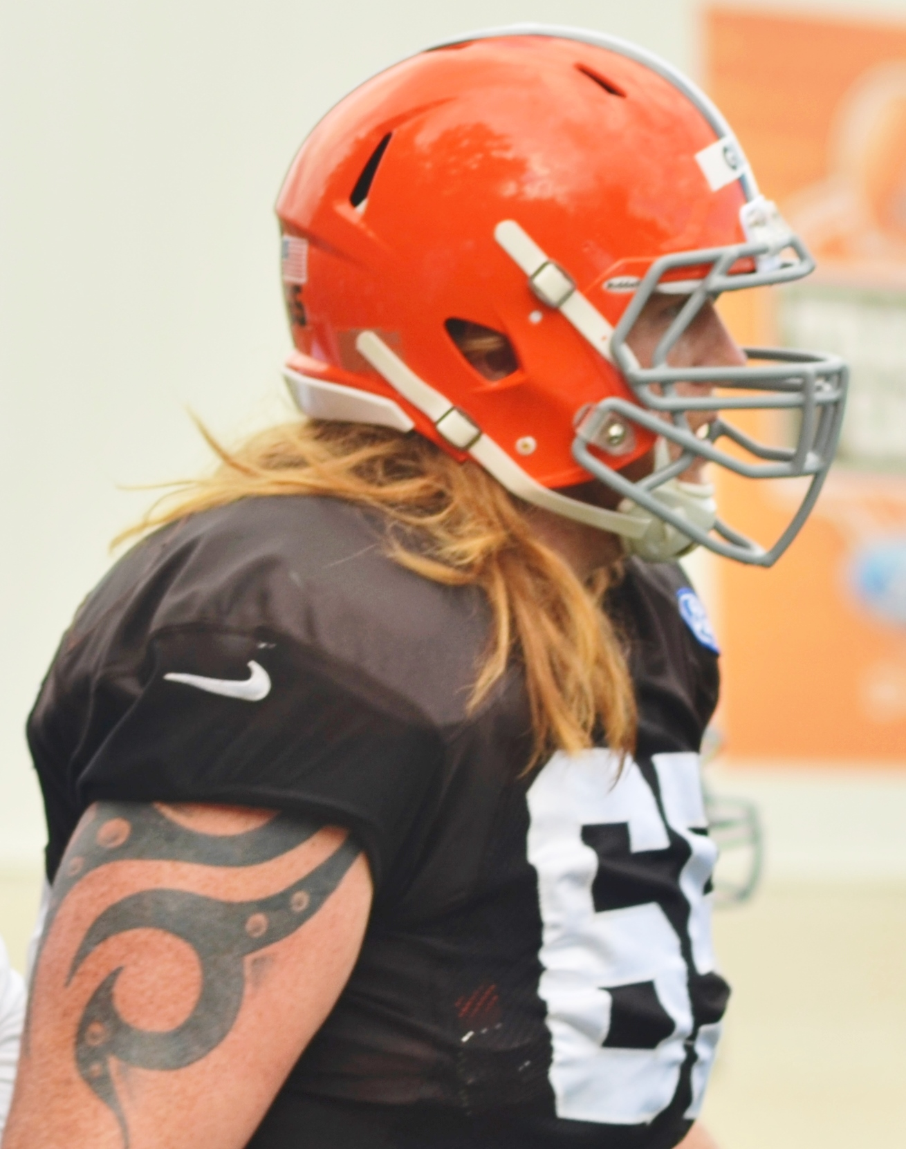 Cleveland Browns offensive guard Garrett Gilkey